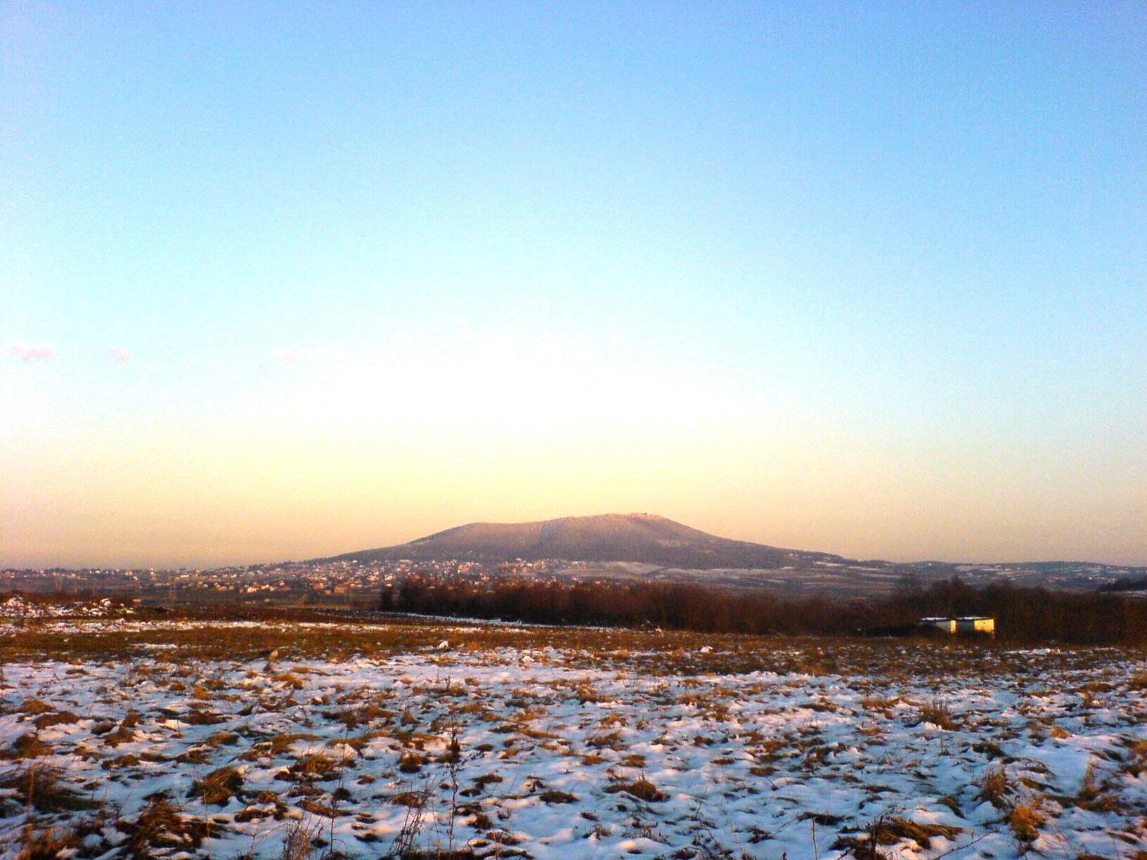 Mount Avala, southern of Belgrade, Serbia